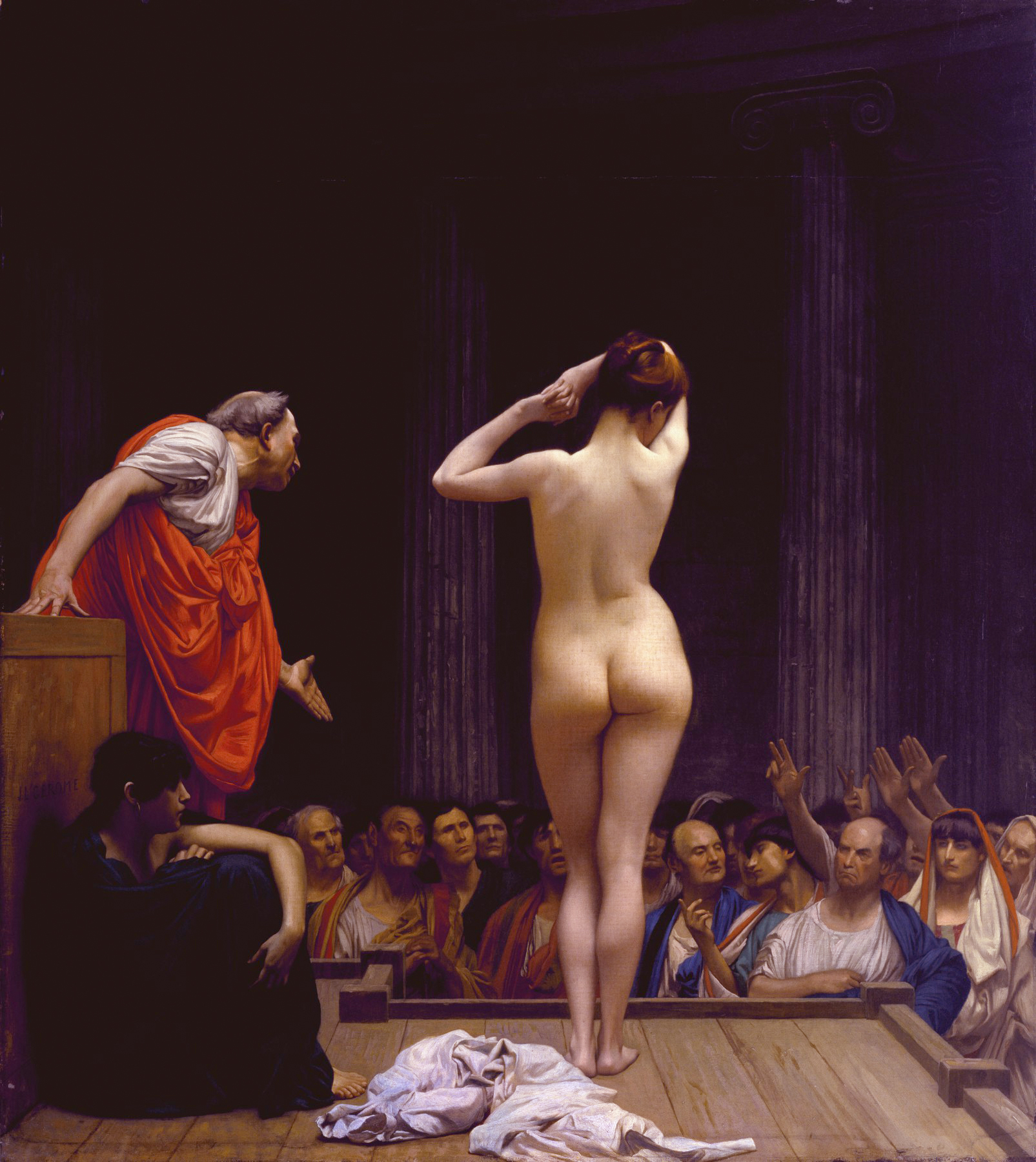 Gérôme painted six slave-market scenes set in either ancient Rome or 19th-century Istanbul. The subject provided him with an opportunity to depict facial expressions and to undertake figurative studies of sensual beauty. He painted another view of the same event--Slave Market in Rome (St. Petersburg, Hermitage Museum)--in which the viewer looks over the heads of the spectators towards the slave.